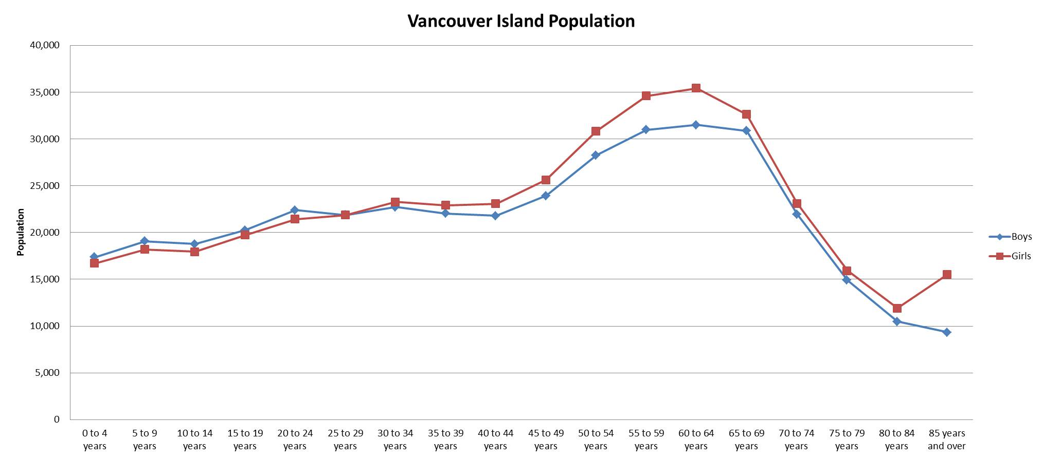 Island Population Distribution- boys vs girls